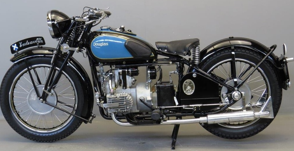 1935 Douglas Endeavour 500cc side valve motorcycle